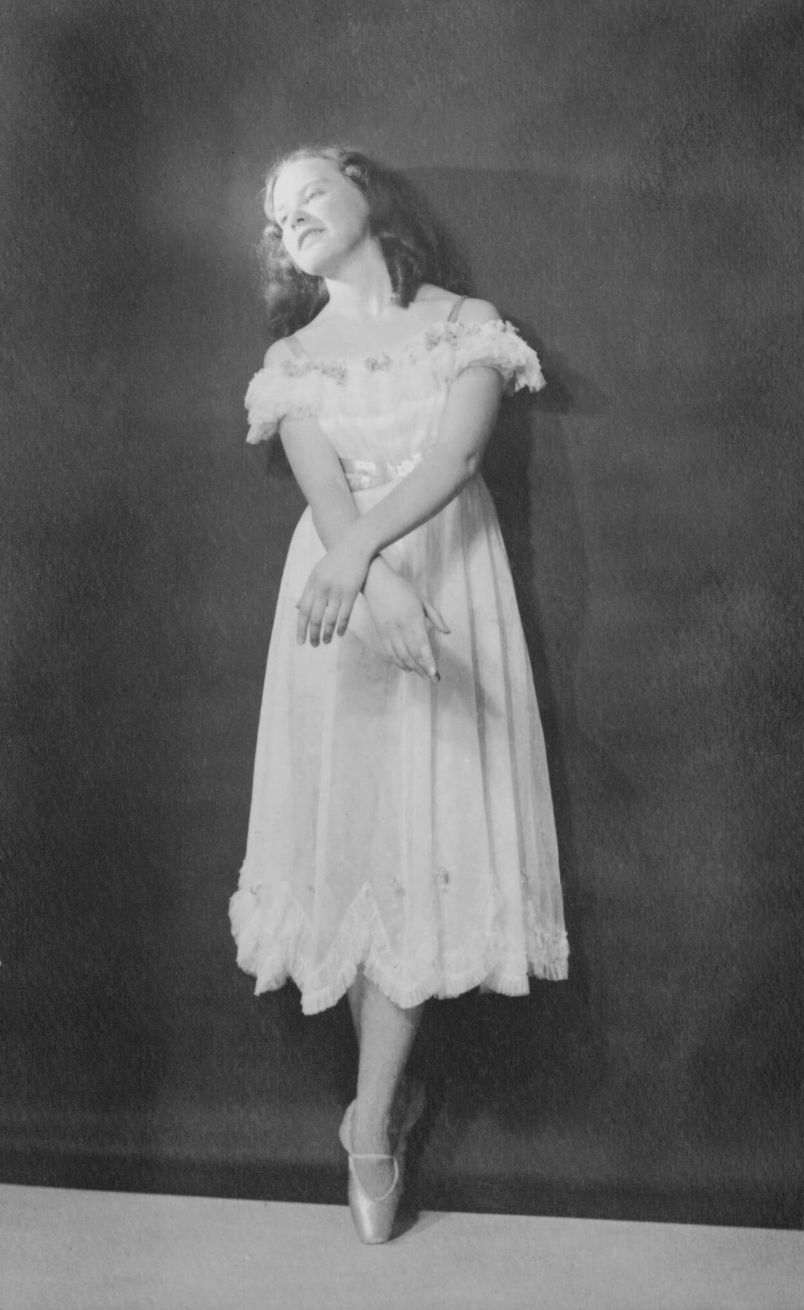 Françoise Sullivan, age fourteen, at l'École de danse Gérald Crevier